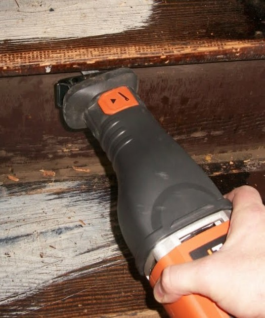 Cutting nails with a sawsall tool. This was a project to repair stairs; but the nails between the stair and the riser were thin and hard to get up. When hammers and crowbars won't work, you can use a sawsall tool (shown) to cut through the unseen nails. The blade extends a few inches under the top stair. Be careful of kickback (if the blade hits something else). Source of picture: here (see public domain declaration at top). Questions: write to my Wikipedia page or email me at